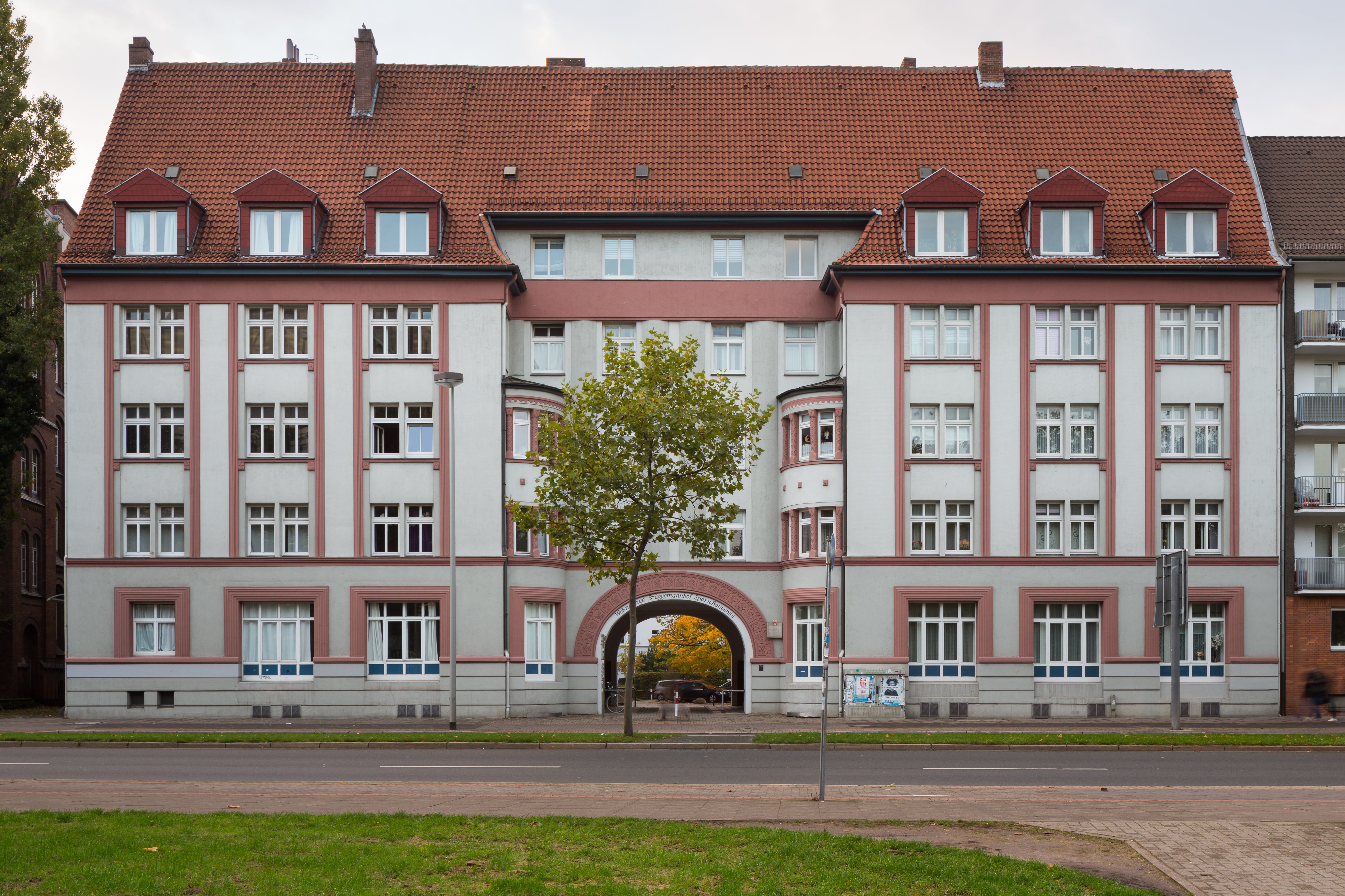 Brueggemannhof apartment complex located in Nordstadt quarter of Hannover, Germany. The facade facing Schlosswender Strasse is pictured.